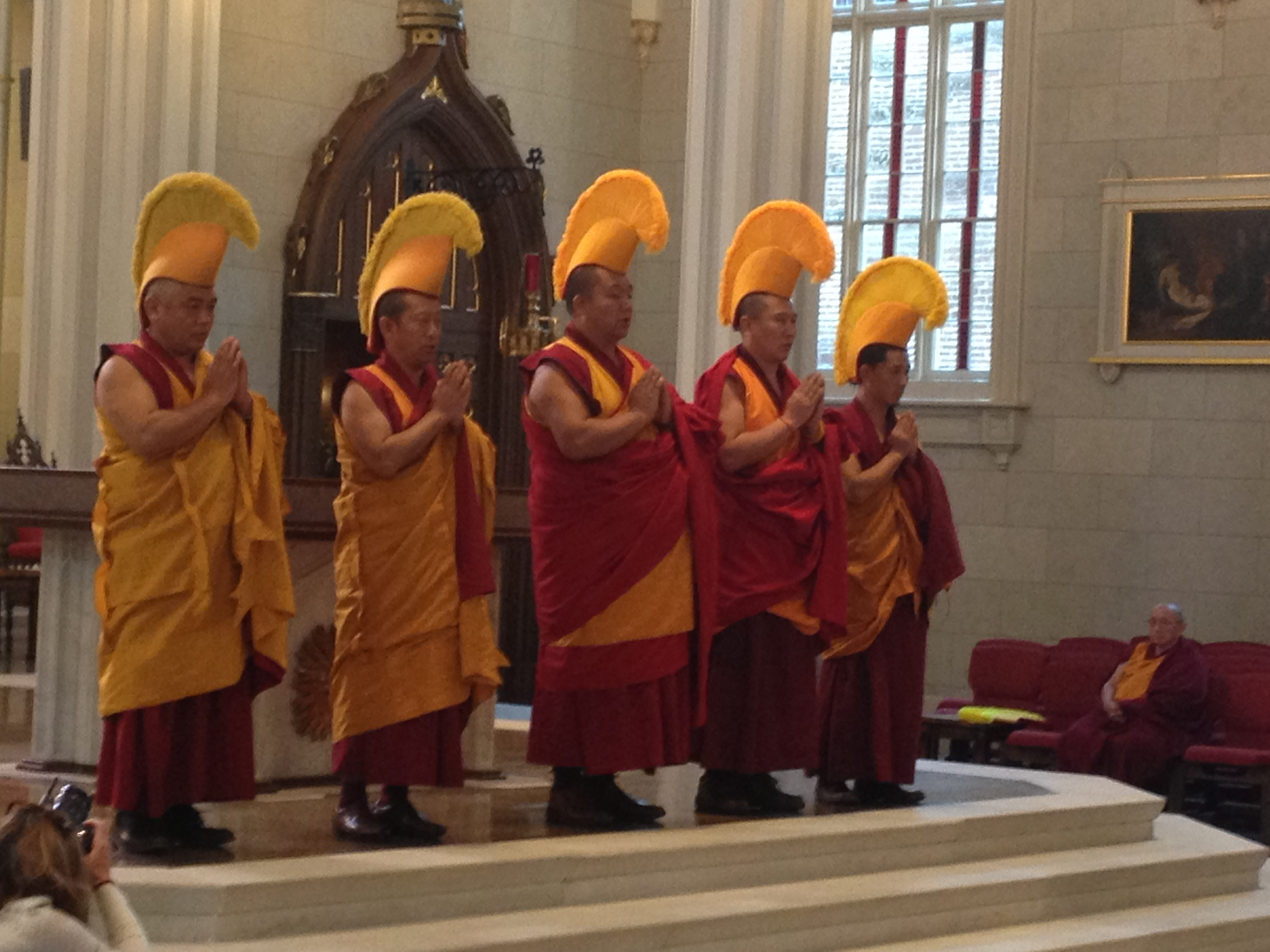 Interfaith Prayer Service: A Call to Compassion The 2013 Festival of Faiths opened with an interfaith service, A Call to Compassion at the Cathedral of the Assumption in Louisville, Kentucky on May 14, 2013. This call is heard in every faith tradition because it is heard in every heart. It is a call heard in sacred silence, which directs attention from the self to the other, creating a pathway to compassion. Local faith leaders recalled the observance of Sacred Silence within their respective houses of worship through their sharing of prayers or readings reflective of their religious traditions.